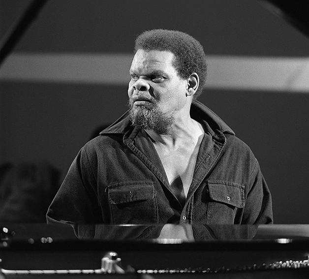 Walter Davis, Jr. (Hasselblad 500c + 150mm. Digital print with pigment ink on archival paper 1/3, Hahnemuhle Bamboo.)